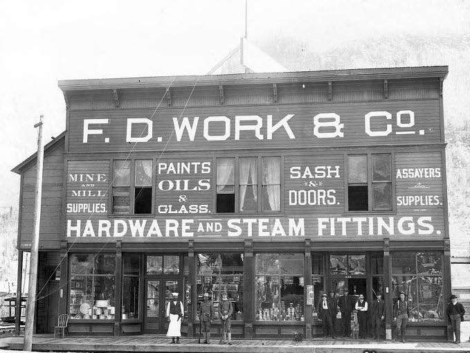 National Guard in front of hardware store during labor unrest - ca1903 Telluride, Colo.